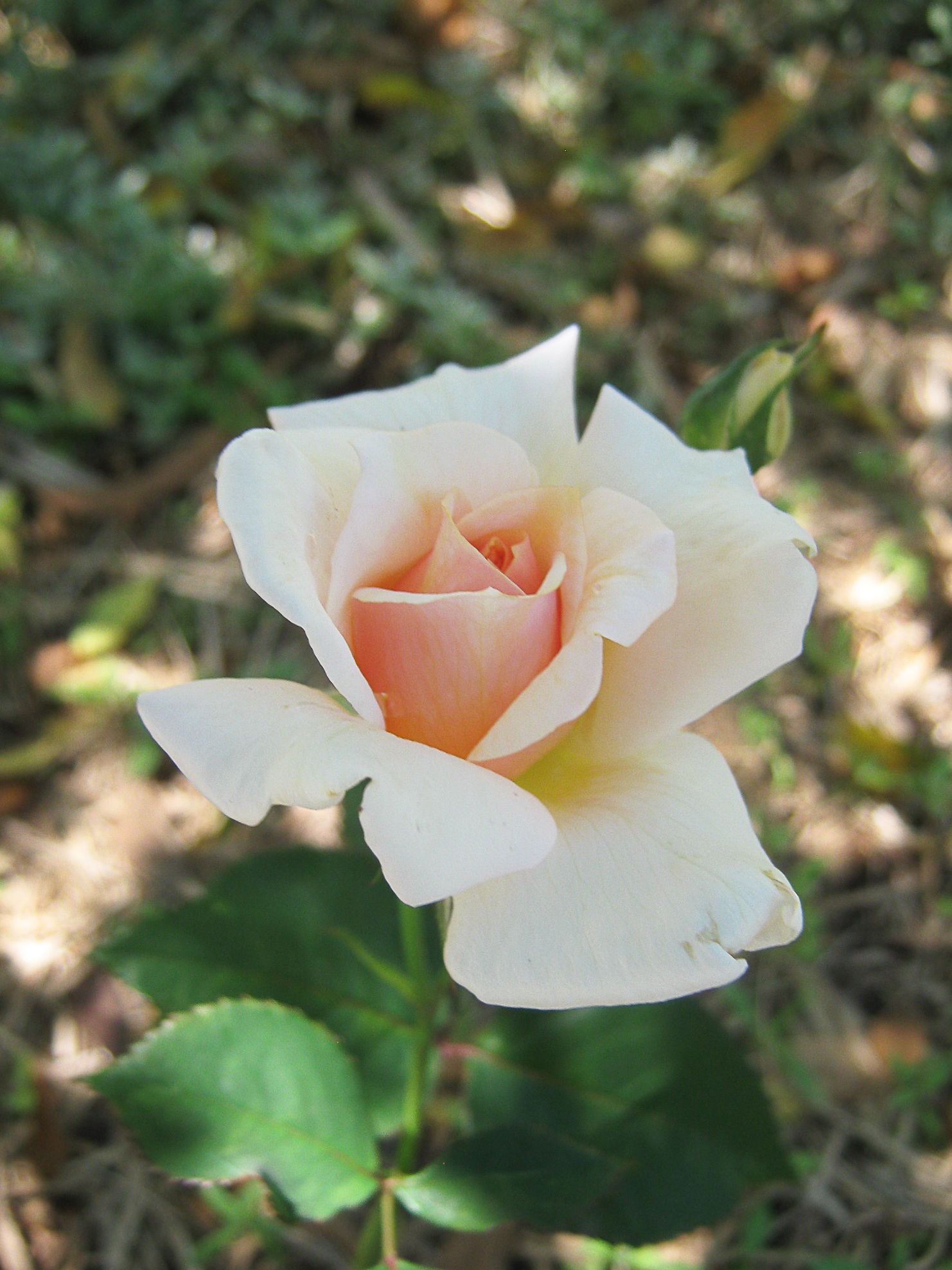 Rose 'Busybody', Hybrid Tea 1929 by Alister Clark; photographed in the Alister Clark Memorial Rose Garden, Bulla, Victoria